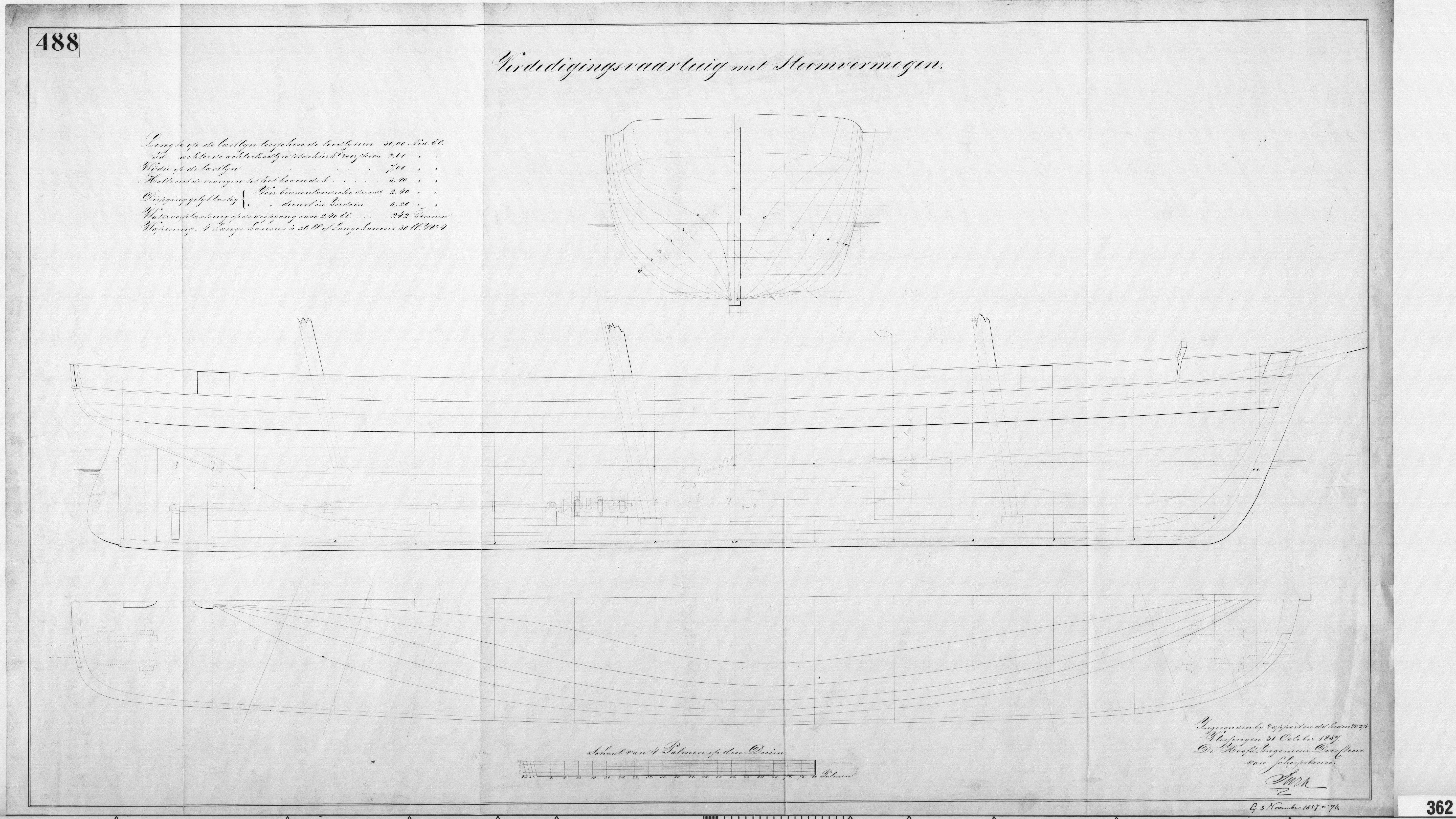 In 1857 the Dutch chief engineer Turk made a first design for the Hector class gun vessels. Note variable draught in home service 2.4 m and in the East Indies 3.2 m.